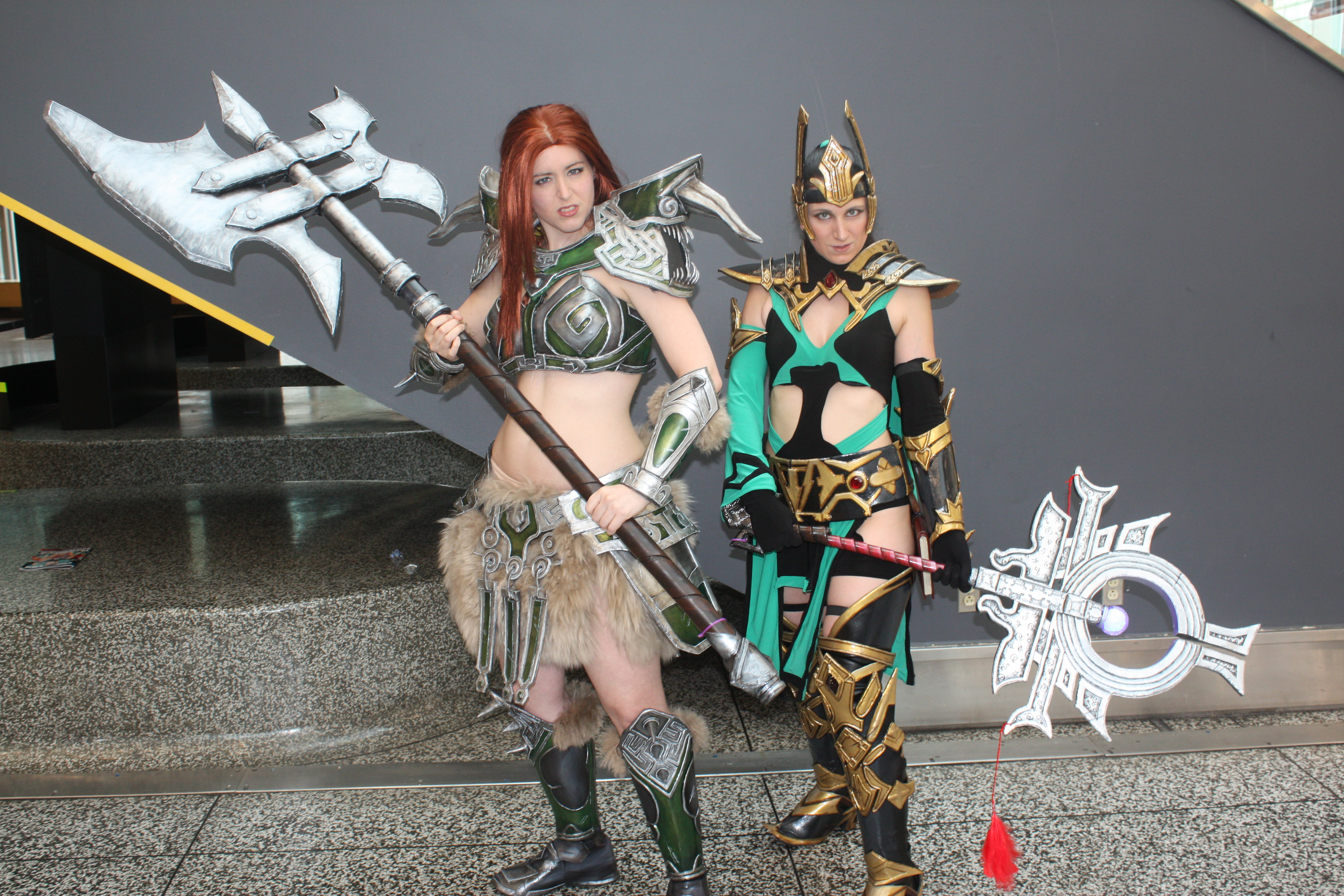 Barbarian and Wizard cosplay from Diablo III. Cosplay by The Three Queens Cosplay at Montreal Comiccon 2015.